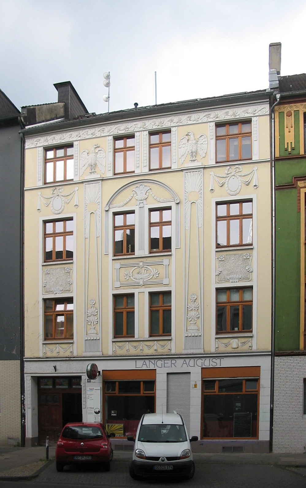 Facade of cultural center Langer August in Dortmund.